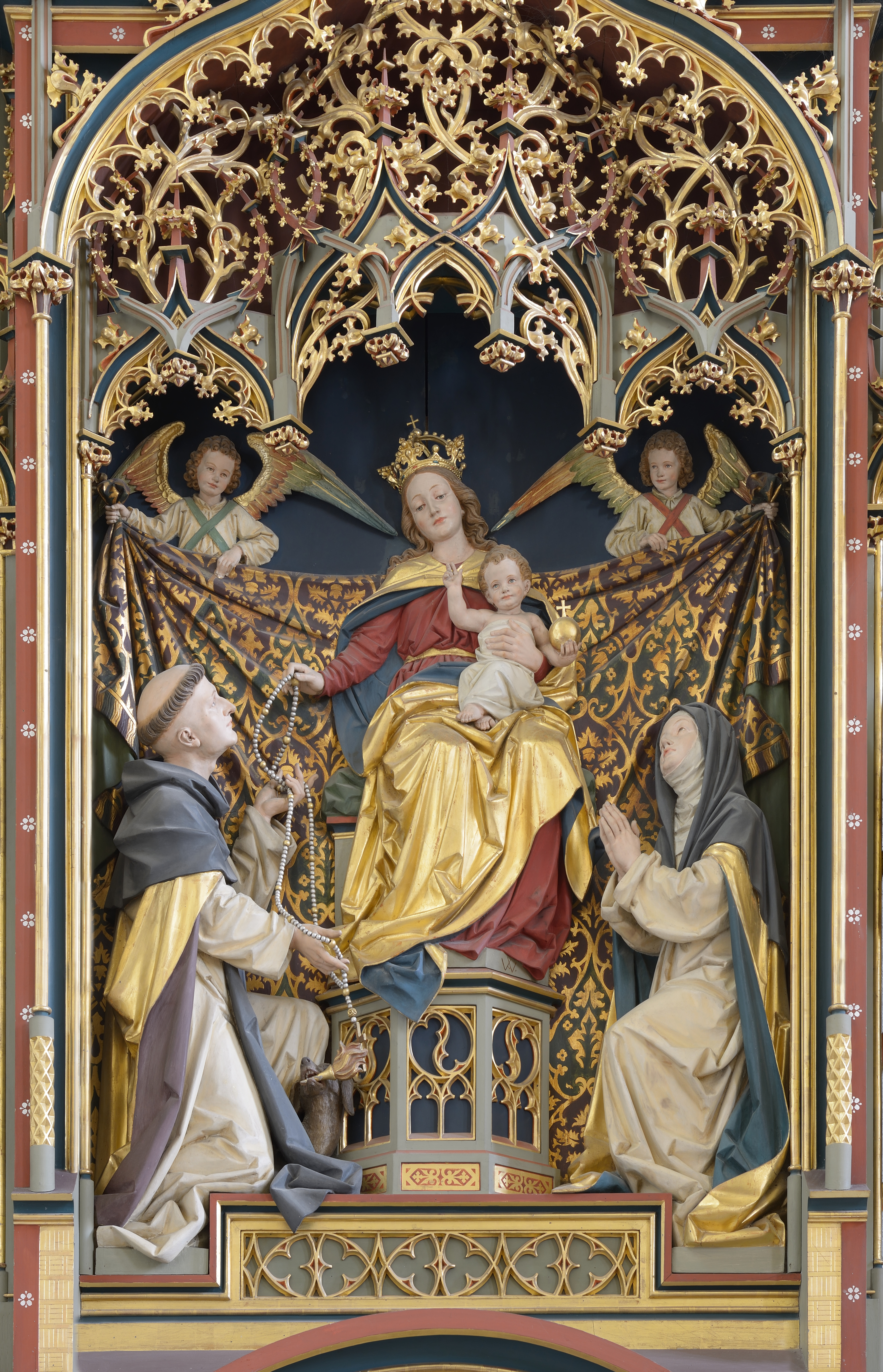 Woodcarved polychromed composition by Alois Winkler (1848-1931) in the parish church of Völs am Schlern